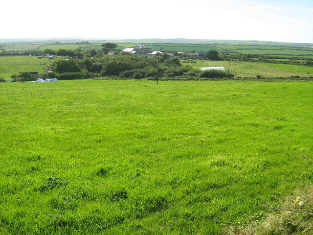 Trezelah farm